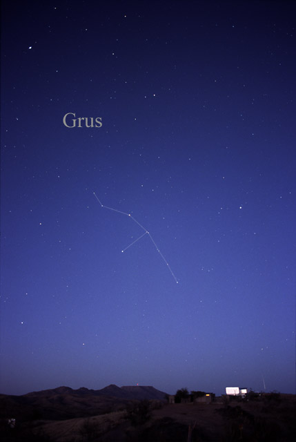 Photo of the constellation Grus, the Crane